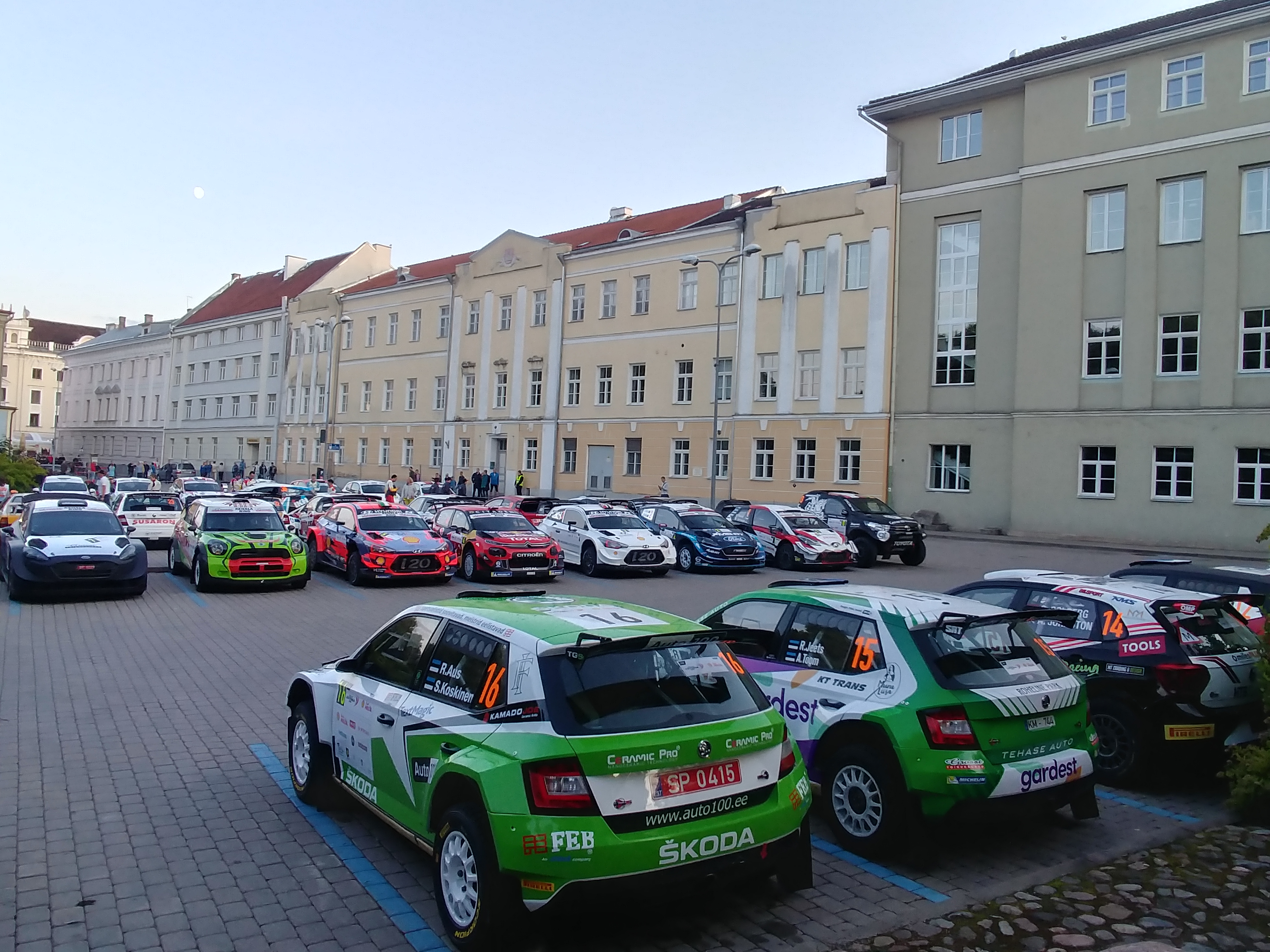 Rally cars in parc ferme of the 2019 Rally Estonia.